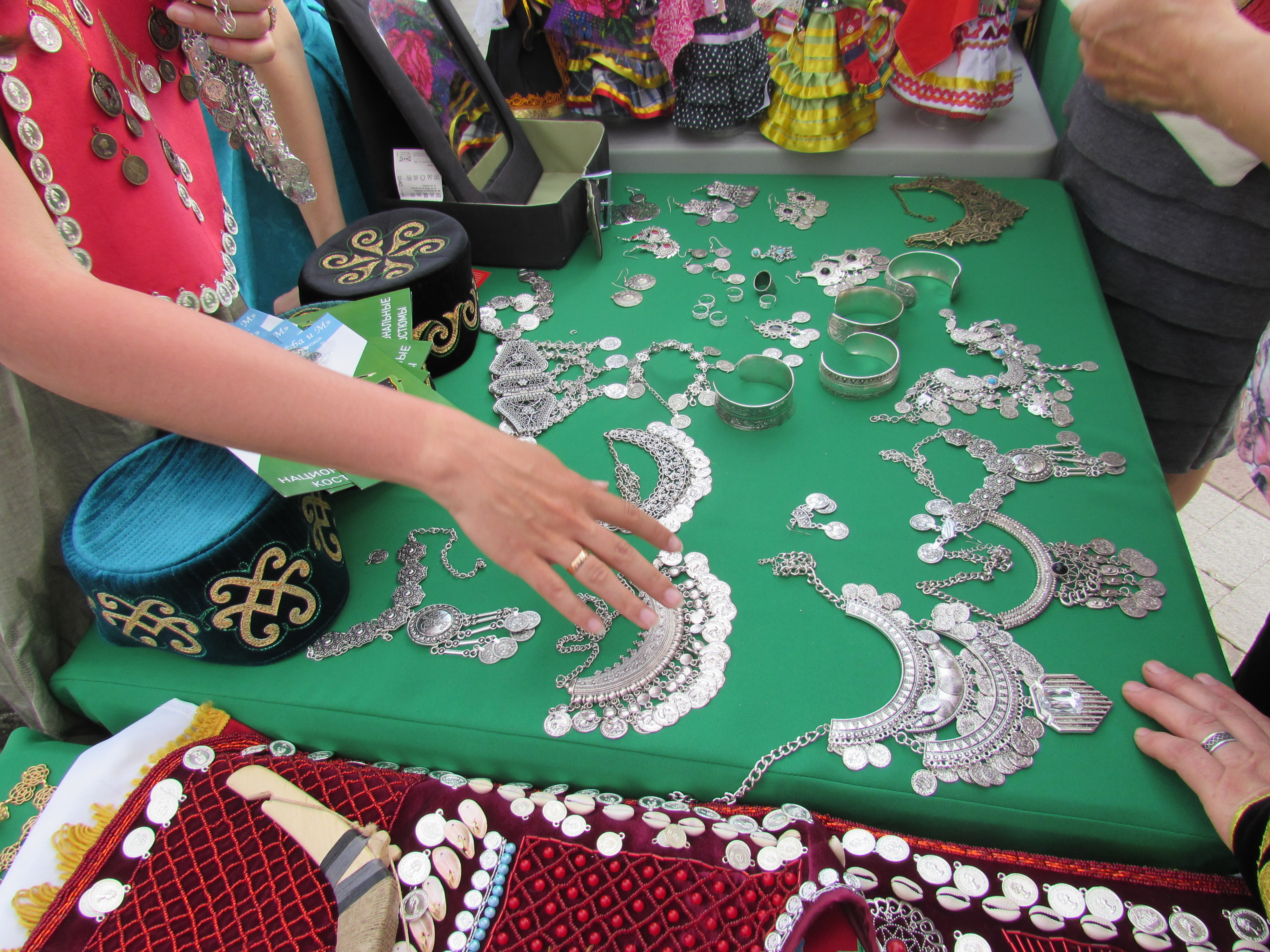 Holiday Bashkir national costume